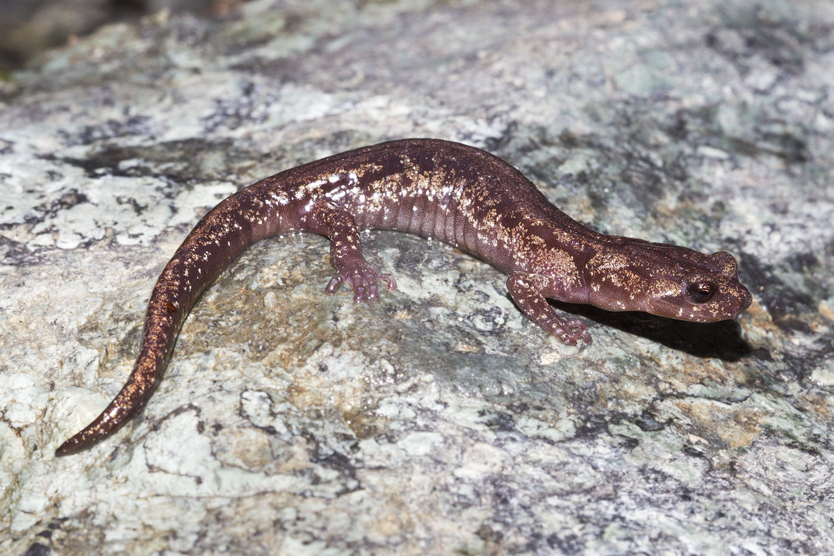 Clouded Salamander, Aneides ferreus. Northern Del Norte Co., CA, USA. April 5